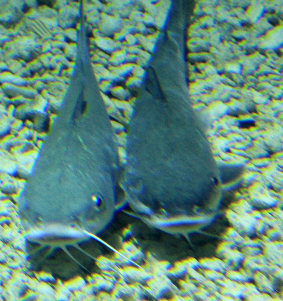 Different types of fishes One of the two species of Catfish found in the Florida Keys. Arius Felis.